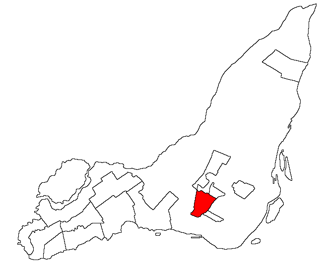 Map of Côte-Saint-Luc on the Isle of Montreal